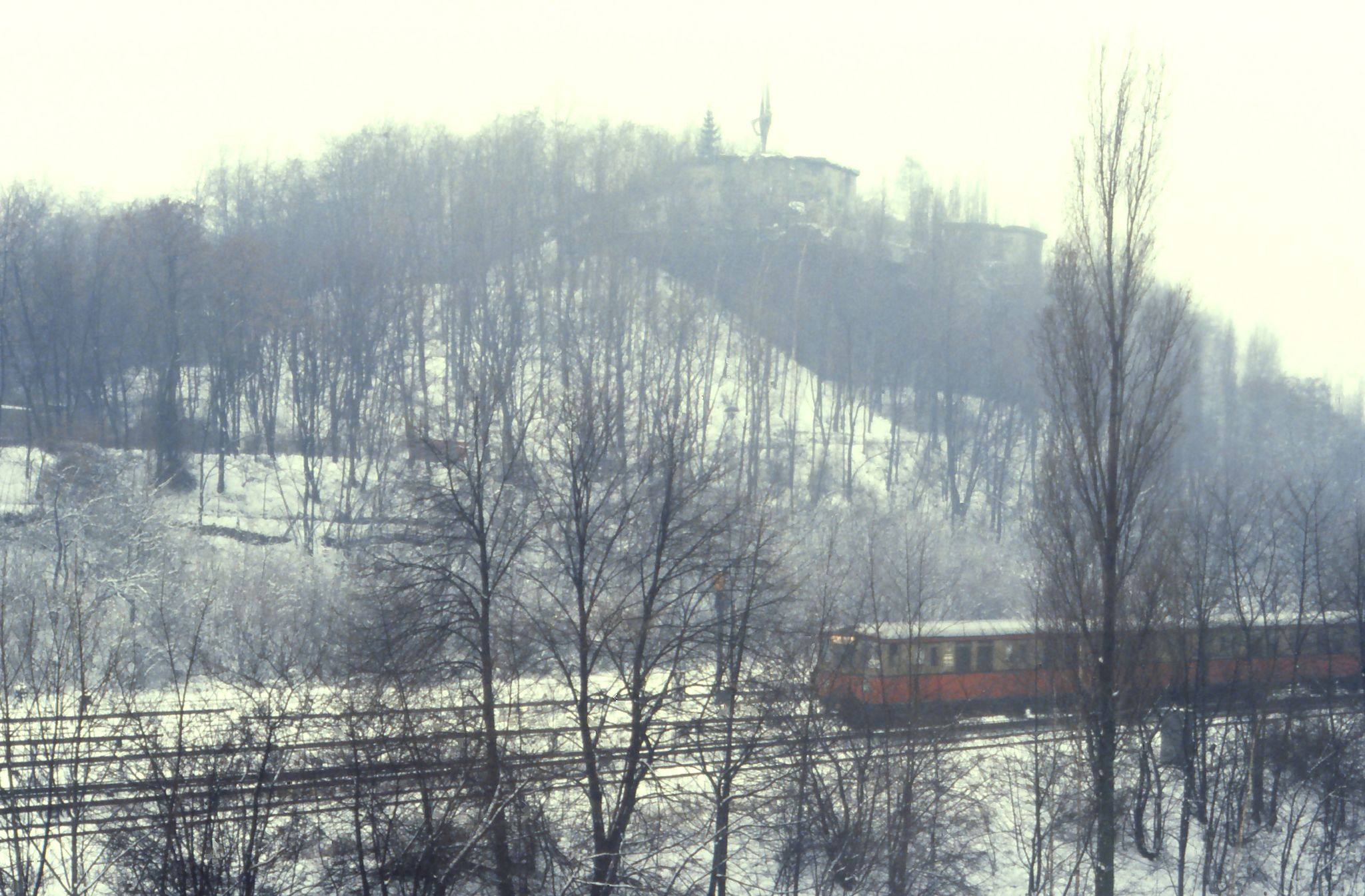 A train of the Berlin S-Bahn close to Gesundbrunnen train station